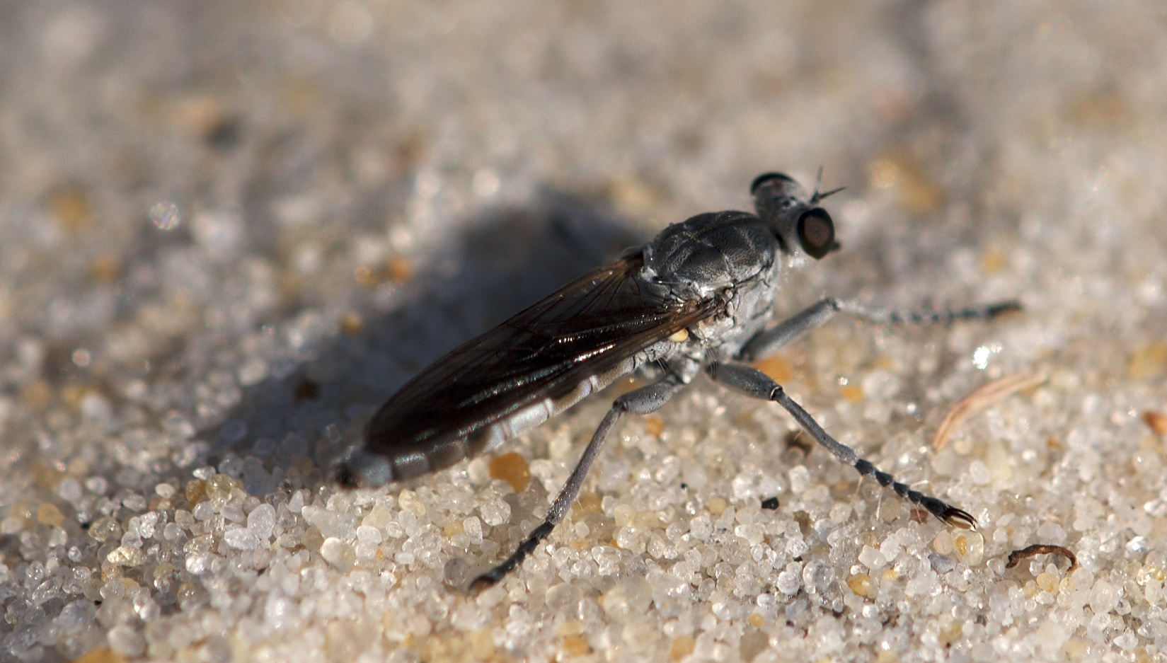 Stichopogon trifasciatus in Worcester County, Maryland.